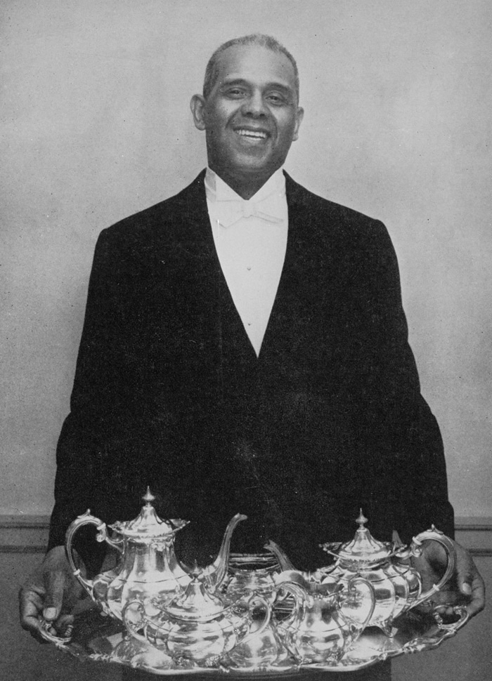 Alonzo Fields (1900-1994), White House butler for 21 years, serving presidents Hoover, Roosevelt, Truman, and Eisenhower.